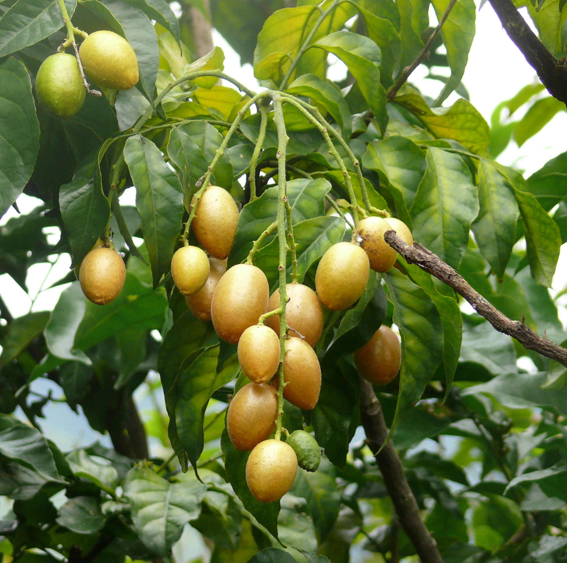 Clausena lansium in Hong Kong.